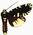 PLATE CXLIV.